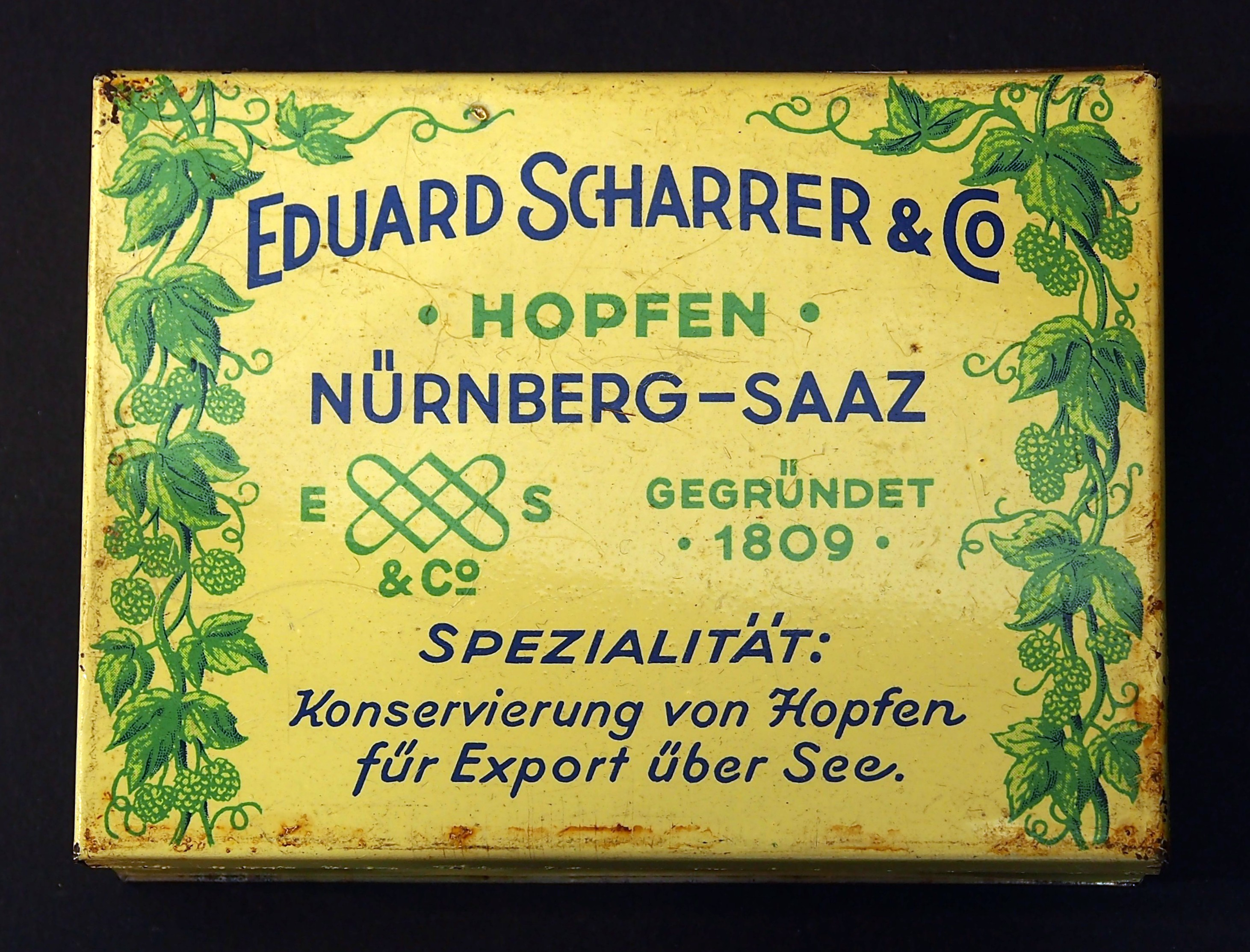 Old product that is not sold/produced anymore!